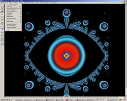 Screen shot of Tierazon program